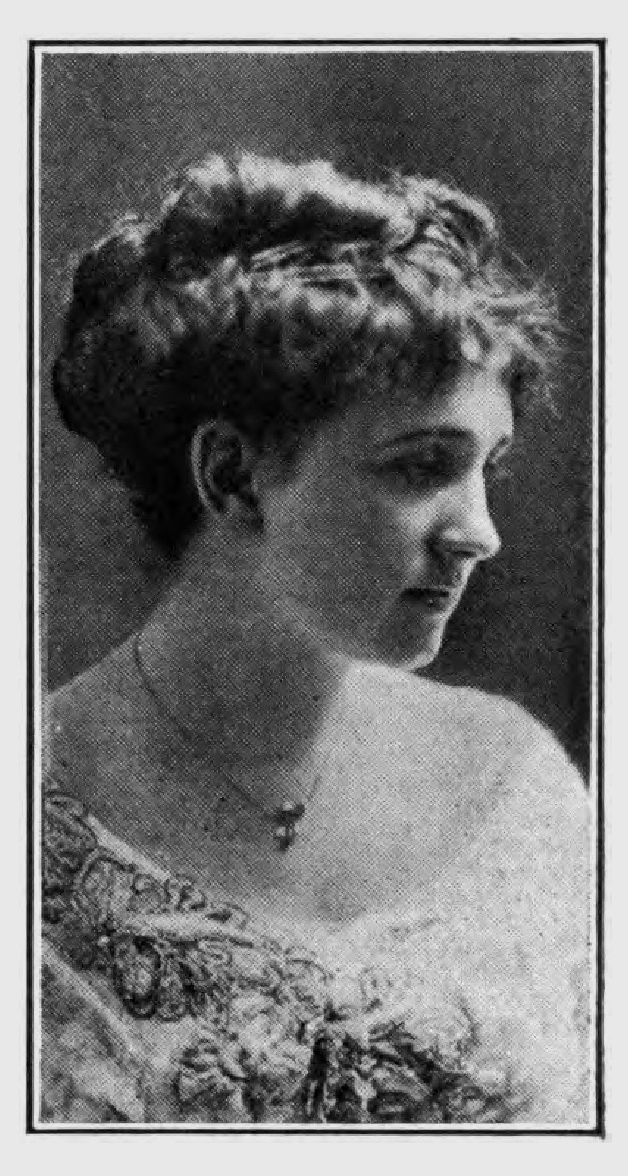 Josephine Lovett (21 October 1877, in San Francisco, California – 17 September 1958, in Rancho Santa Fe, California) was an American actress and screenwriter.